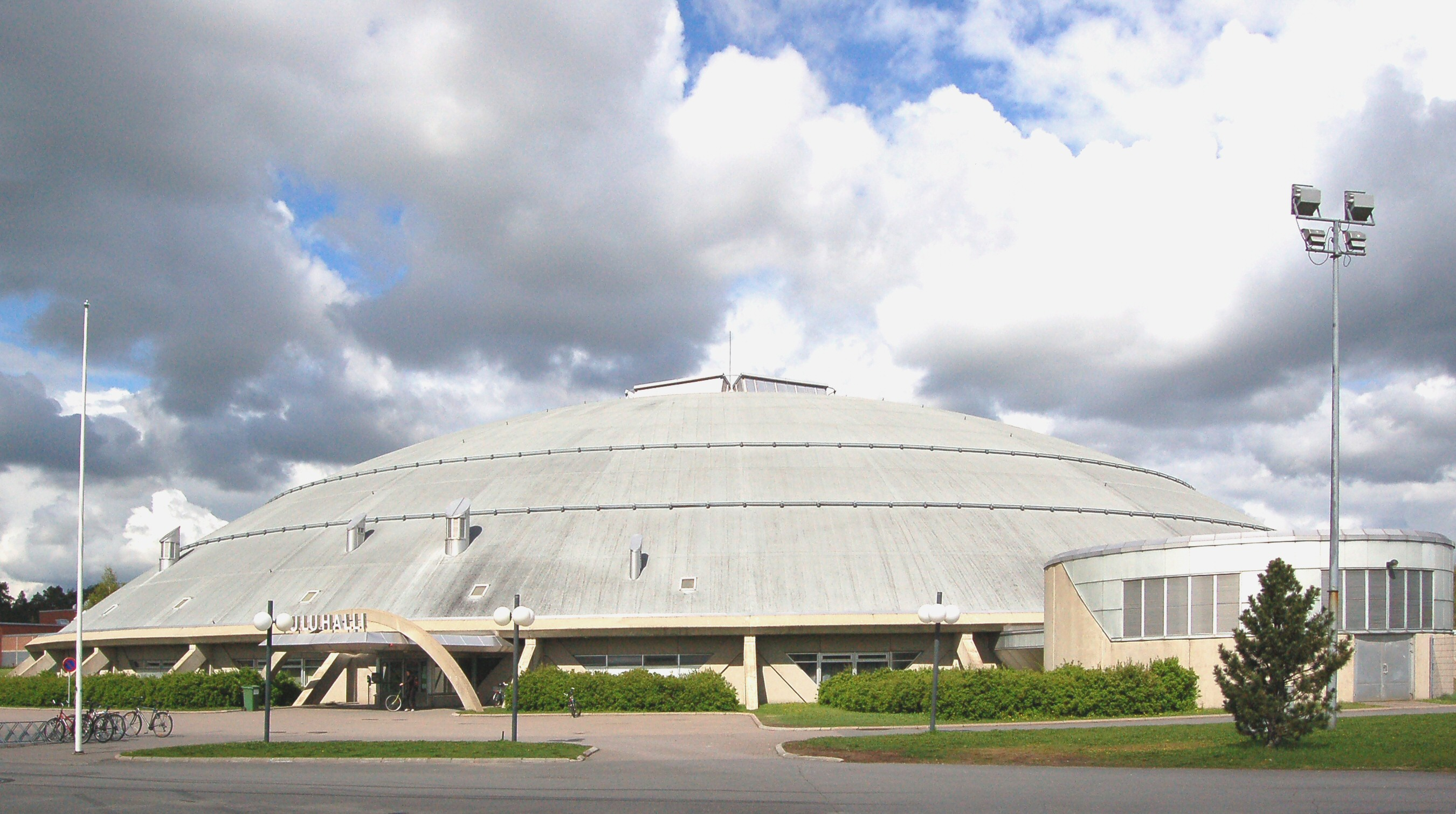 Ouluhalli ("Oulu hall") indoor sports arena in Raksila, Oulu, Finland